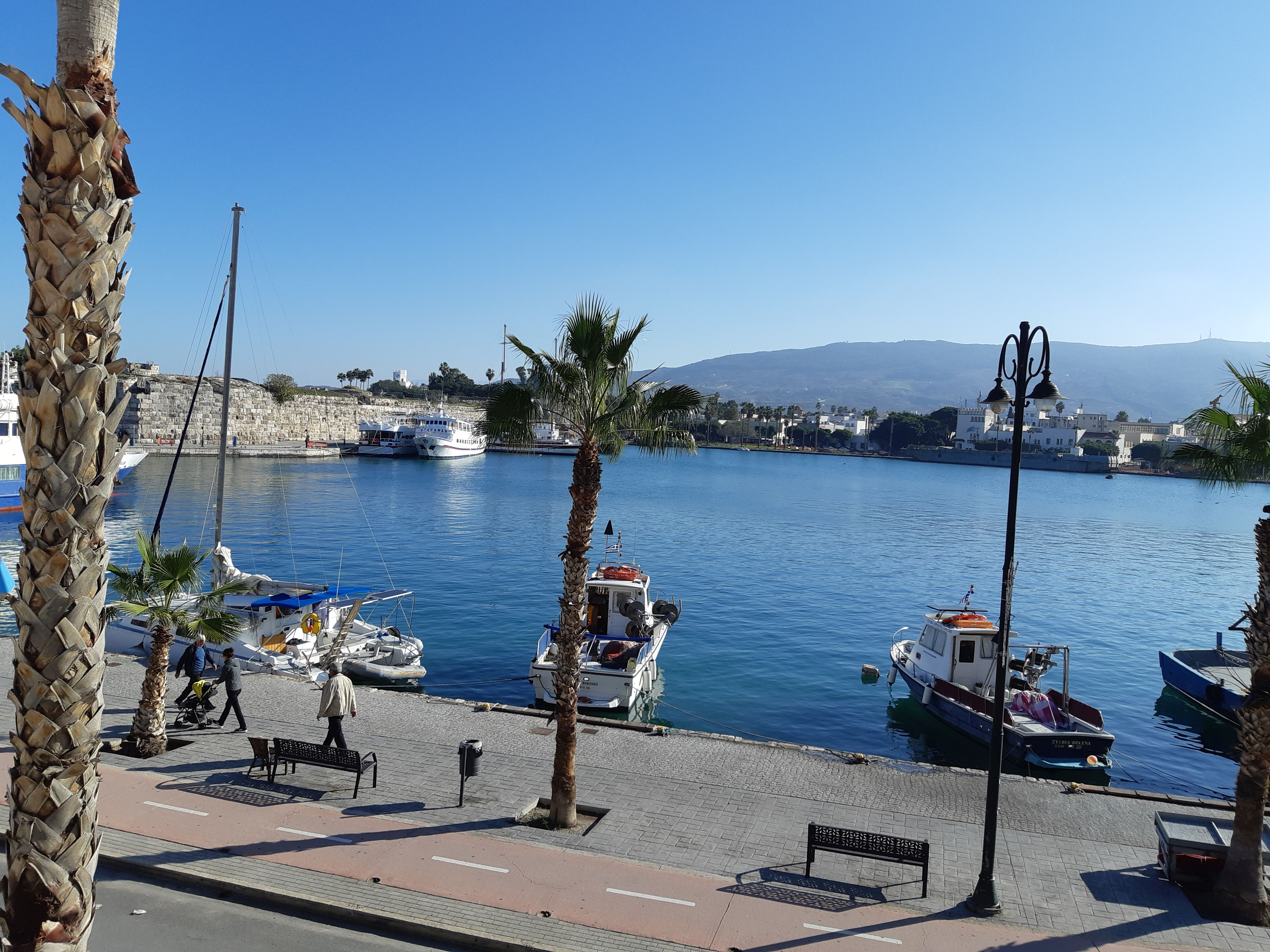 Port of Kos (Mandraki) on the Greek island of Kos.